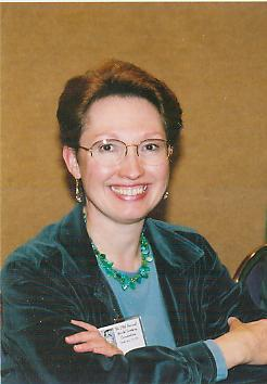 Sent to me by the subject, Lillian Stewart Carl in email. In that email she wrote: I am attaching my usual publicity photo, the one that's used in the header on my website. It was taken by Laura Domitz. Thanks for asking rather than lifting a photo from my website. I hereby give permission for the photo previously attached to be used not only on Wikipedia, but also by any re-user of Wikipedia content. I interpret this as a free licesne, with cc-by being the simplest that fits the expressed intent, of a work-for-hire with the copyright owned by the subject. I am forwarding a copy of the email to the Foundation Permissions address. DES (talk) 22:39, 21 June 2007 (UTC)